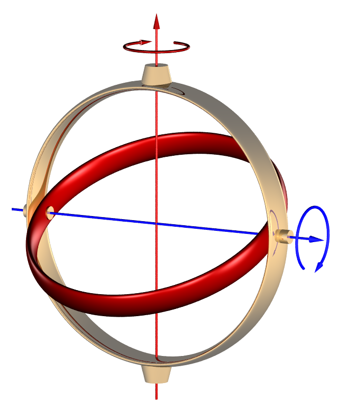 2-axis gimbal